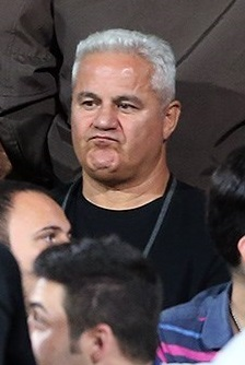 Farshad Pious viewing Persepolis Saba match in Azadi Stadium